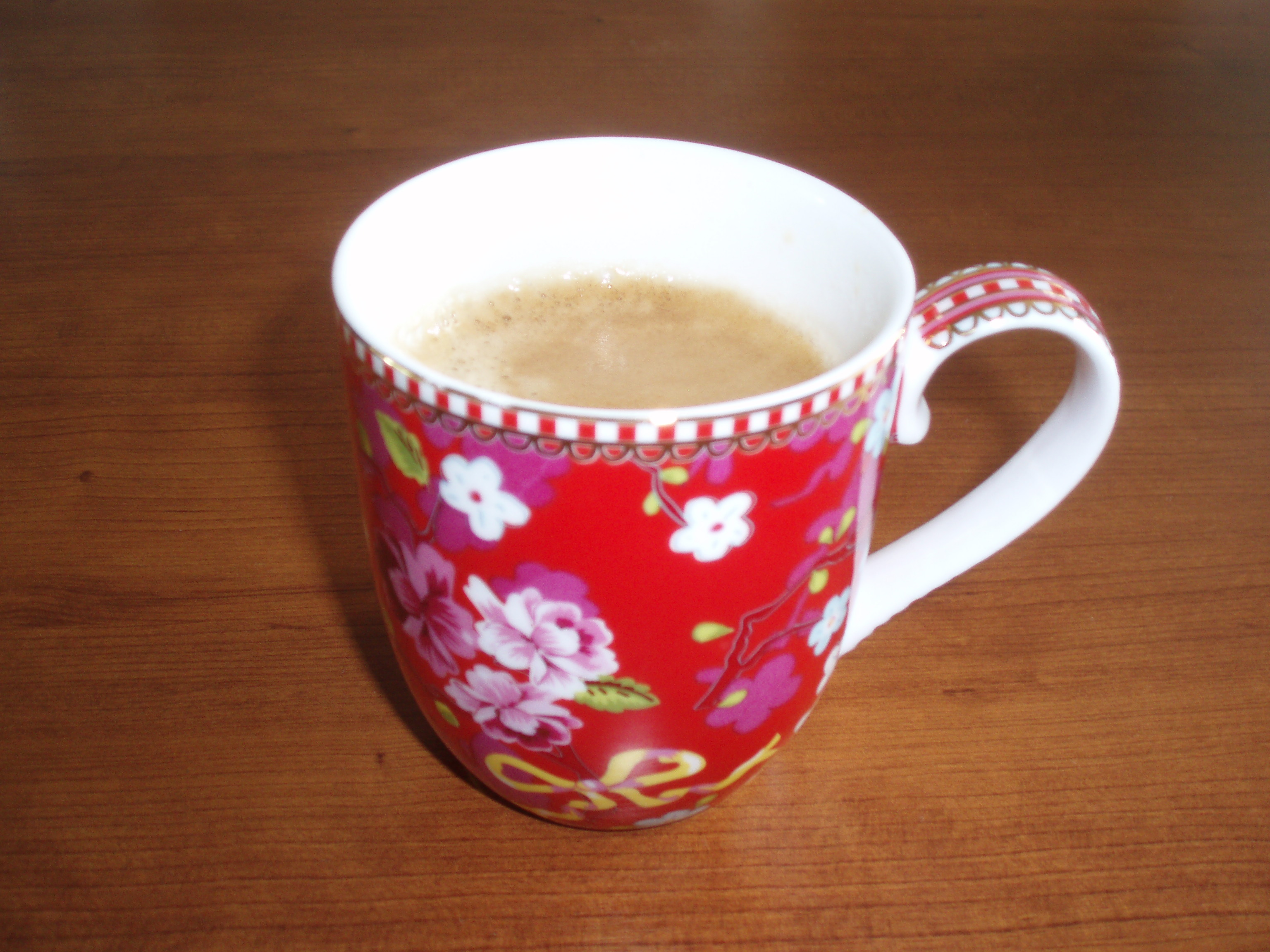 A cup of caffè lungo